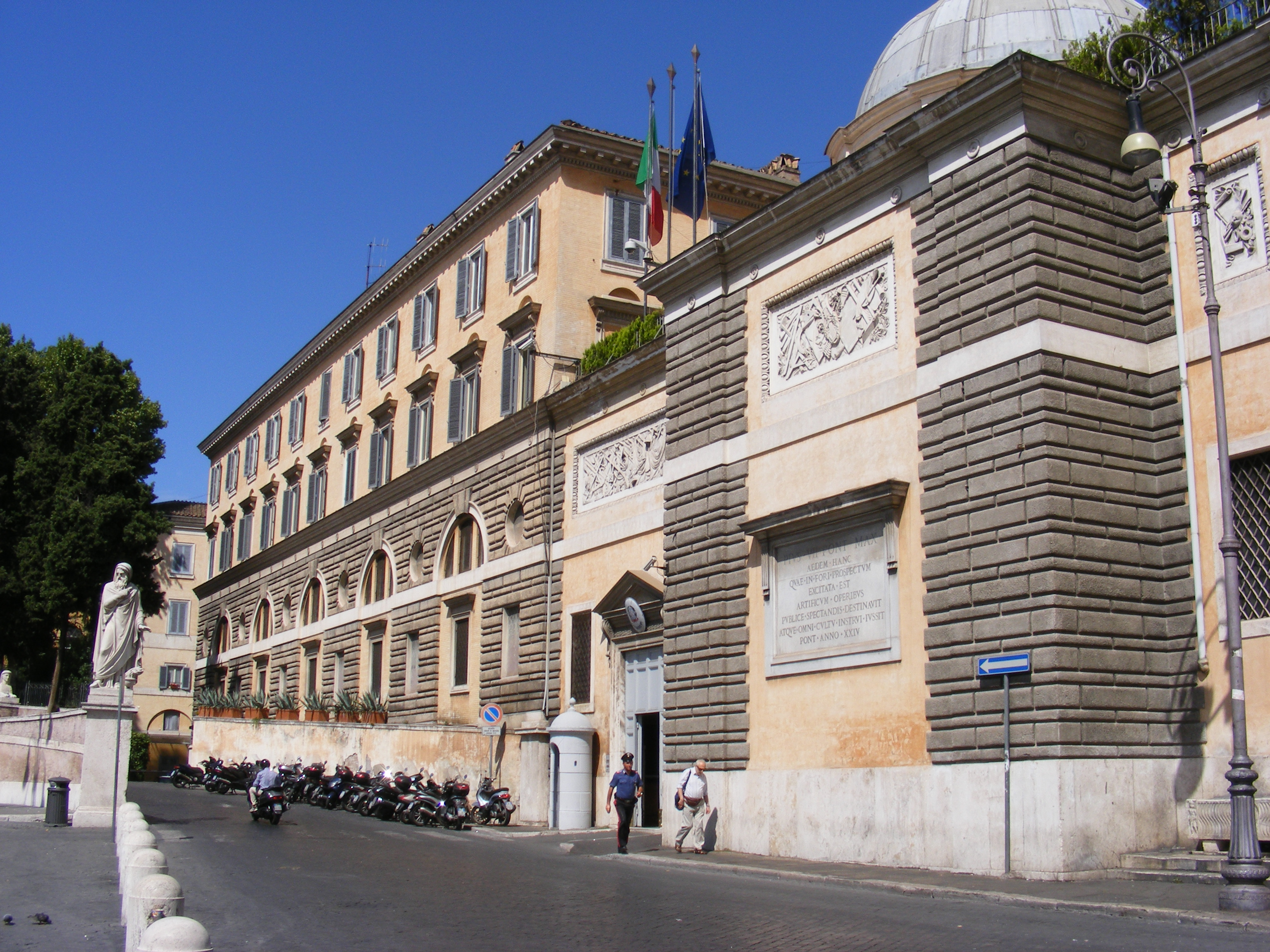 Caserma "Acqua" (Comando Legione Carabinieri Lazio Spaccio), Piazza del Popolo, Rome.